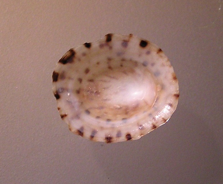 Notoacmea flammea Quoy & Gaimard, 1834, a limpet from the family Lottiidae; South Australia